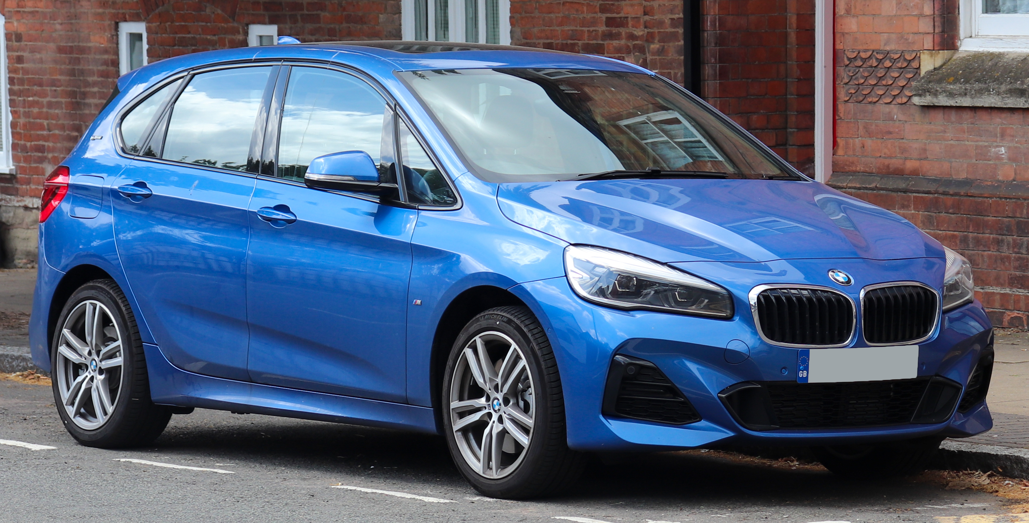 2019 BMW 225xe Active Tourer M Sport Premium Automatic 1.5 Front Taken in Warwick